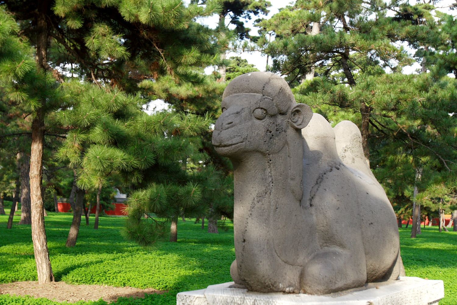 Zhaoling, Qing, Shenyang